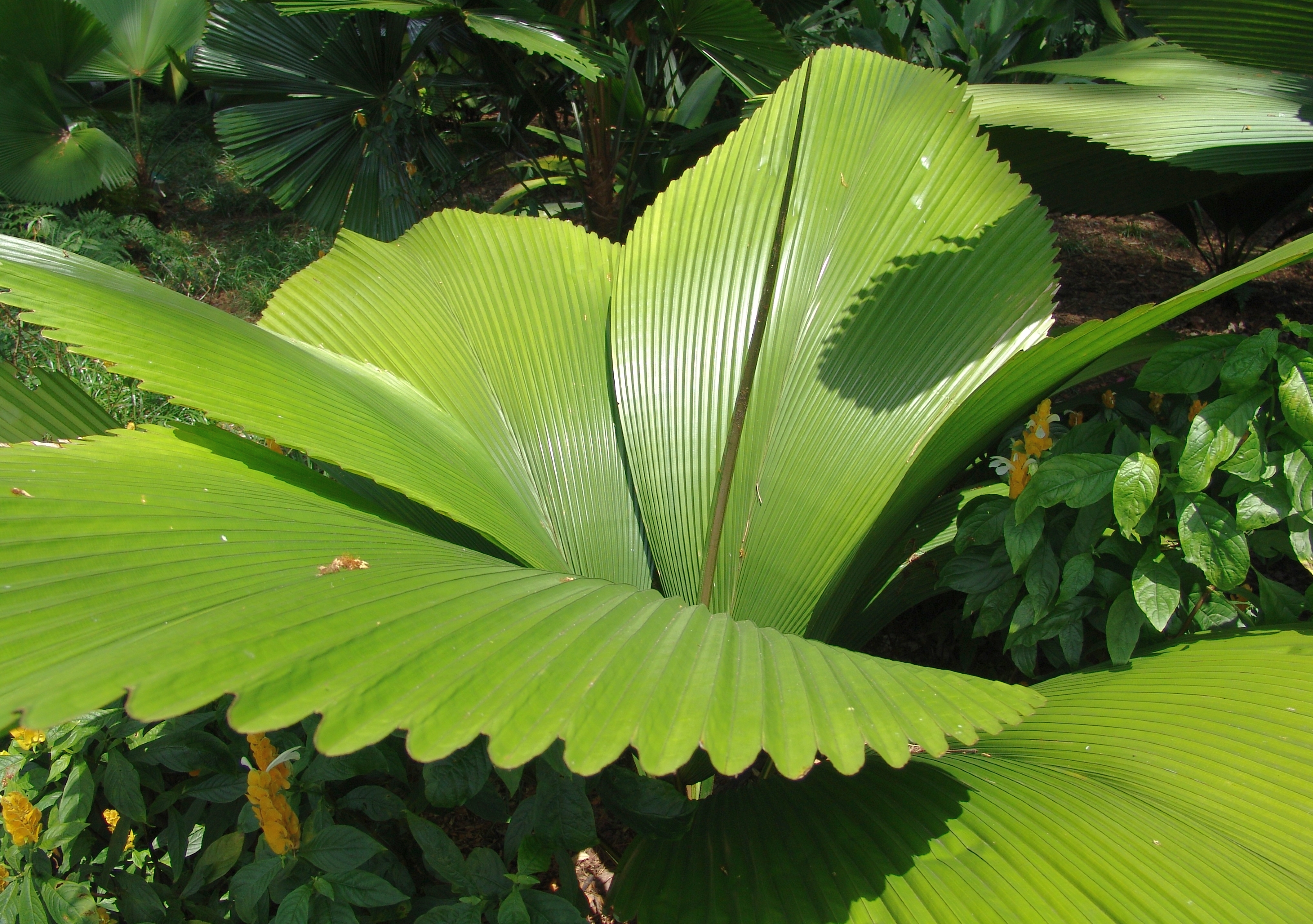 At Singapore Botanical Garden